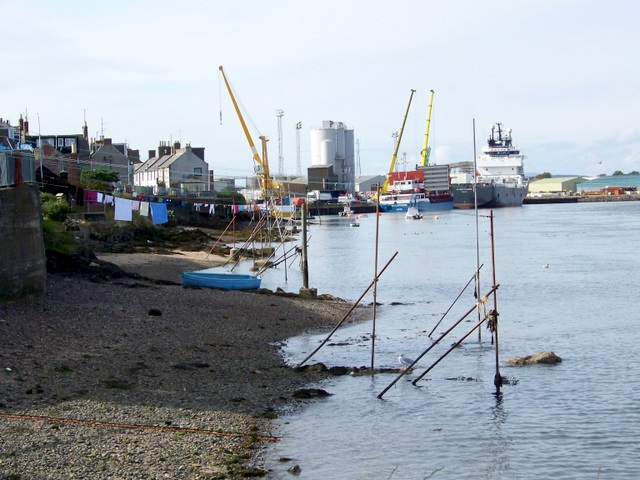 South Esk, Ferryden Looking up river of the South Esk towards the harbour with washing lines on the narrow beach area across the road from the cottages.